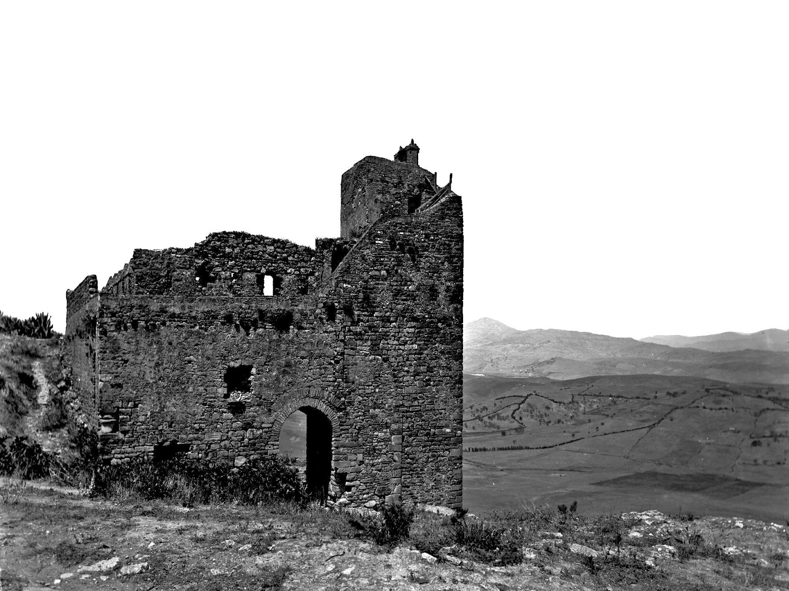 Castle of Jimena- Photograph by George Washington Wilson taken in the 1870-1890s in Campo de Gibraltar in Southern Spain just north of Gibraltar. Pictures found by Neville Chipolina